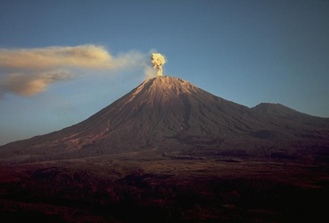 Semeru volcano, Java, Indonesia. View from the south-east.